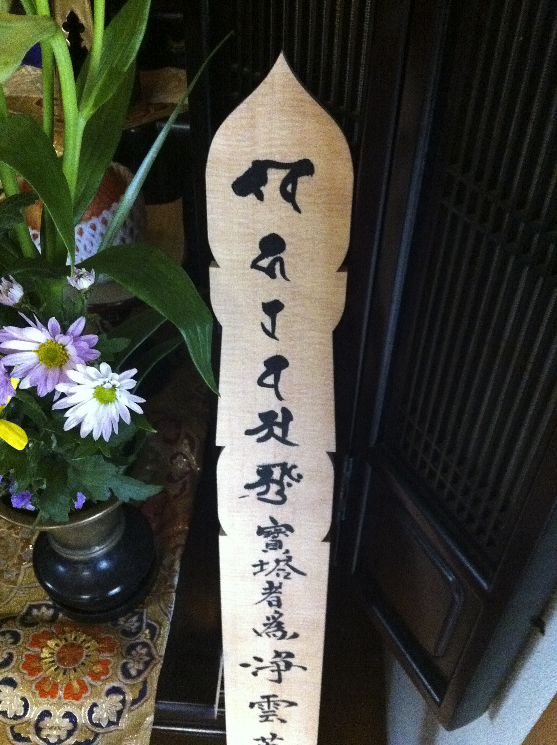 A sotōba, a strip of wood shaped like a gorintō laid as an offer on tombs in Japan. Visible the division in five sections representing the five elements of Buddhism cosmology, plus inscriptions in Sanskrit and Japanese. Follows below the deceased person's posthumous name (hidden in this photo for privacy reasons)